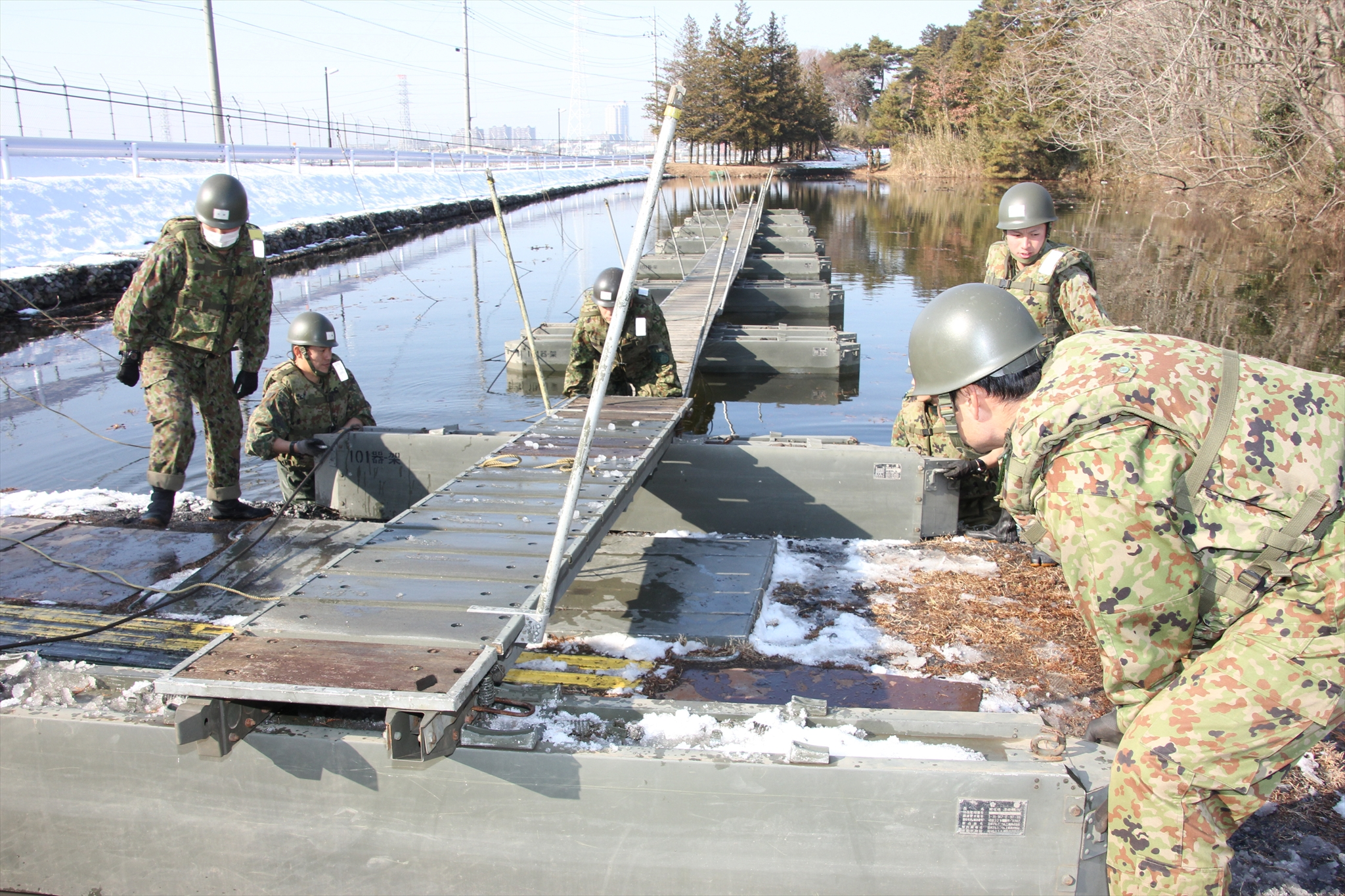 Light footbridge system built by NCO candidates of the 1st Engineer Brigade of the Japan Ground Self-Defense Force.